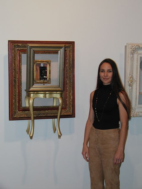 photo of Artist Sherri Tan by one of her sculptures